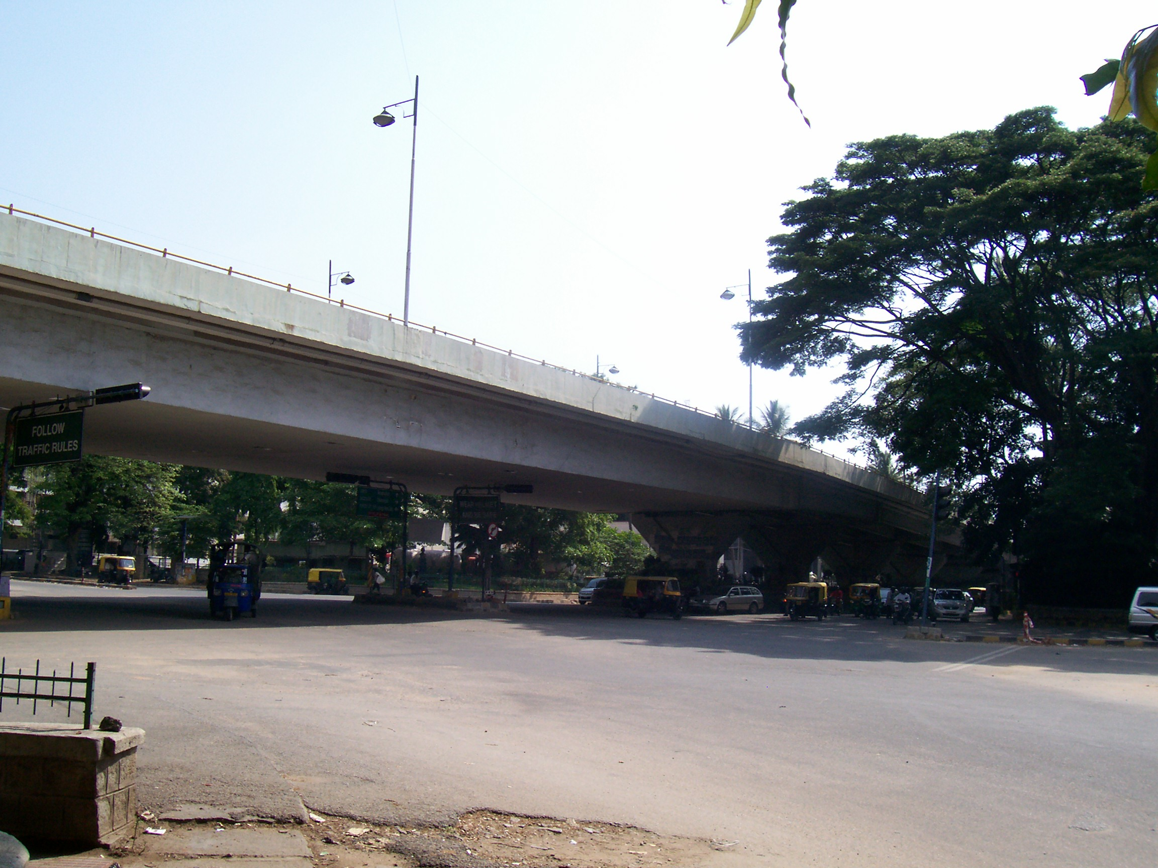 National College Flyover, Basavanagudi.